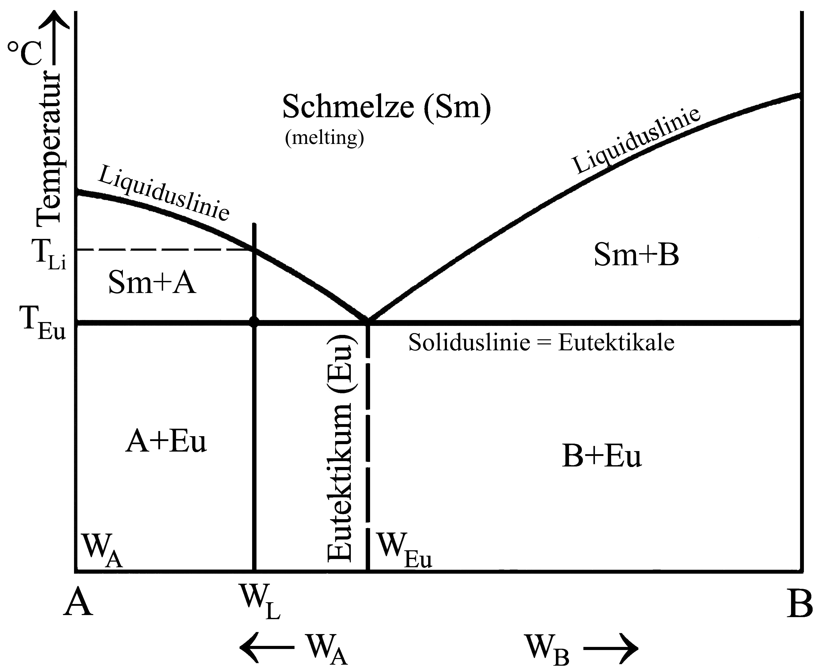 alloy – diagram separate crystal building